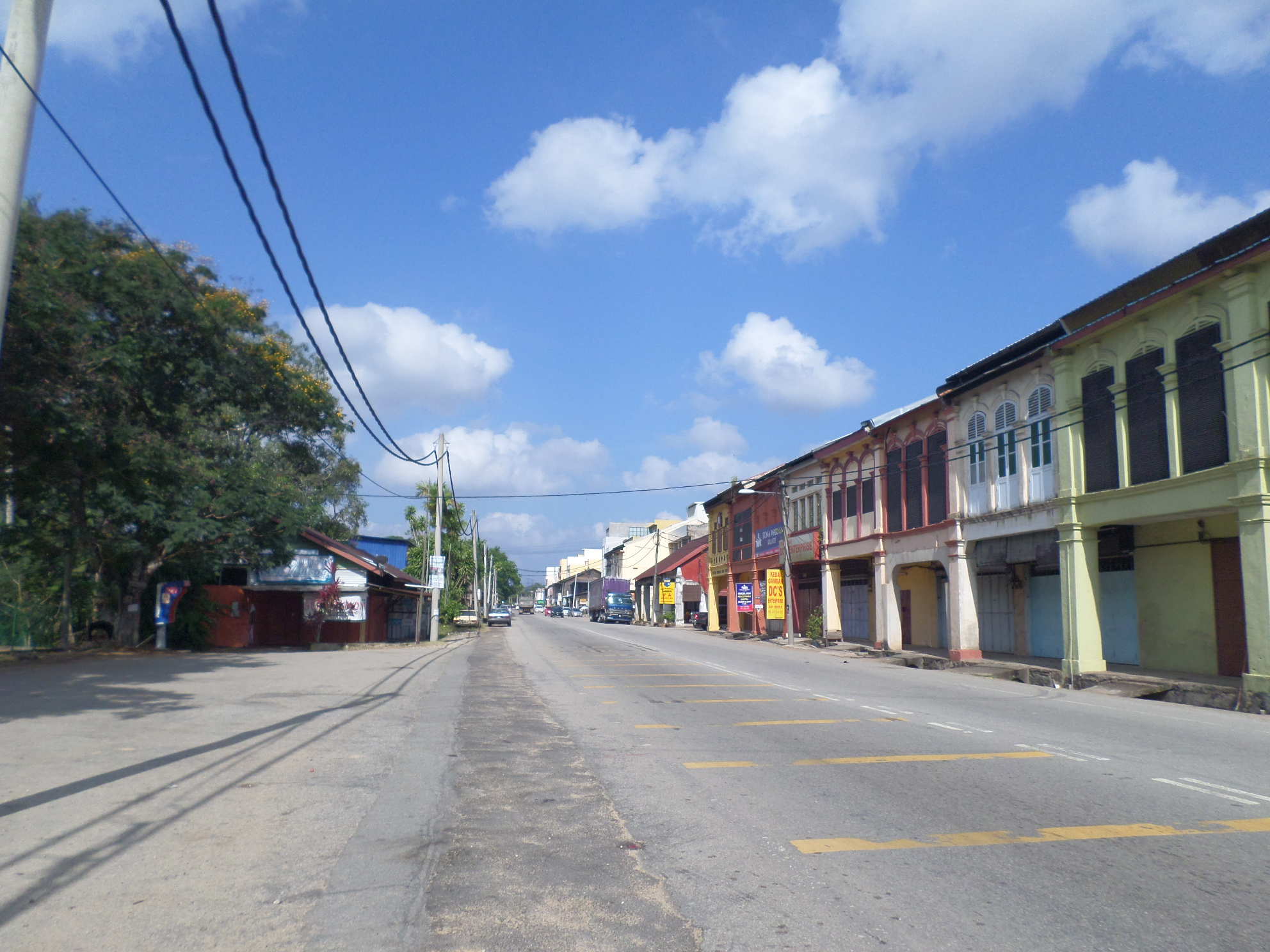 Gambang, Kuala Kuantan, Kuantan, Pahang, Malaysia